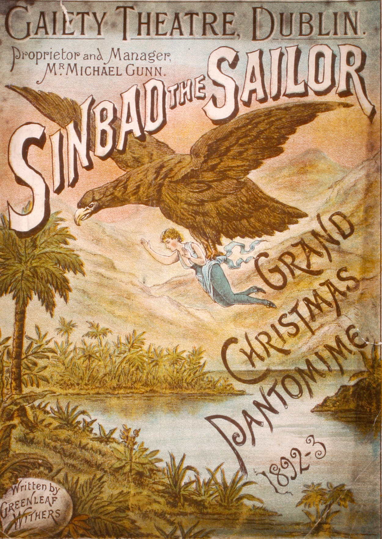 Cover of a programme for Sinbad the Sailor, the pantomime in Dublin's Gaiety Theatre at Christmas 1892. James Joyce mentions this in the Ithaca Episode of Ulysses and may well have seen it with his family - he would have been aged 10 at the time... Date: December 1892 NLI Ref.: LO 8041